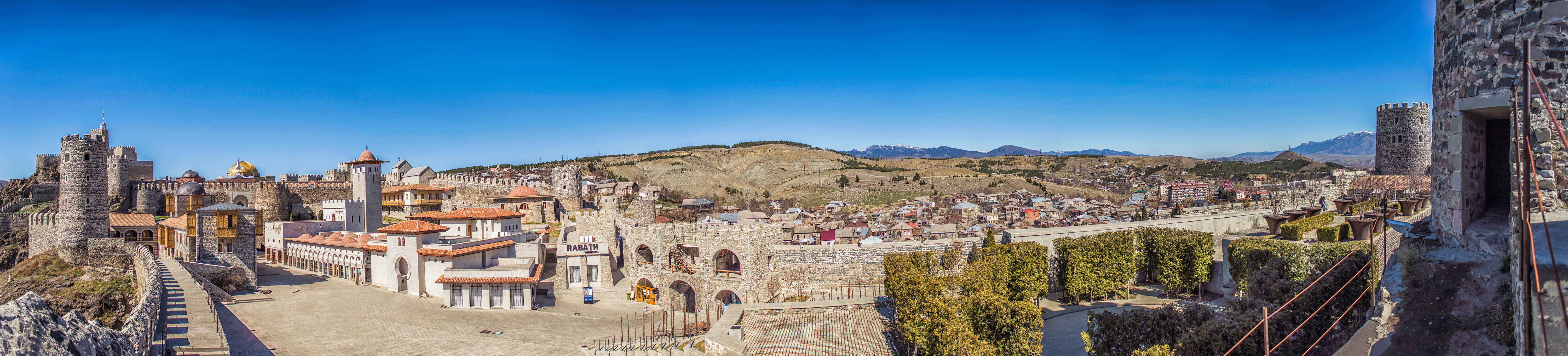 Rabati Castle in Akhaltsikhe